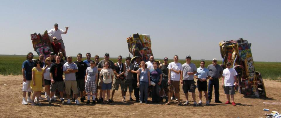 Route 66 Team Shot